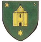 Coat of arms of Kishartyán, Hungary